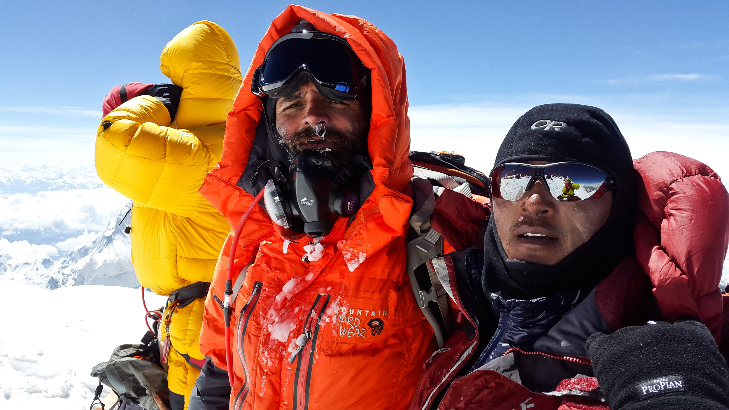 Kuntal Joisher, and Mingma Tenji Sherpa on summit of Mt. Everest. This was Kuntals first Everest summit, and Mingma's 7th summit. May 19, 2016.